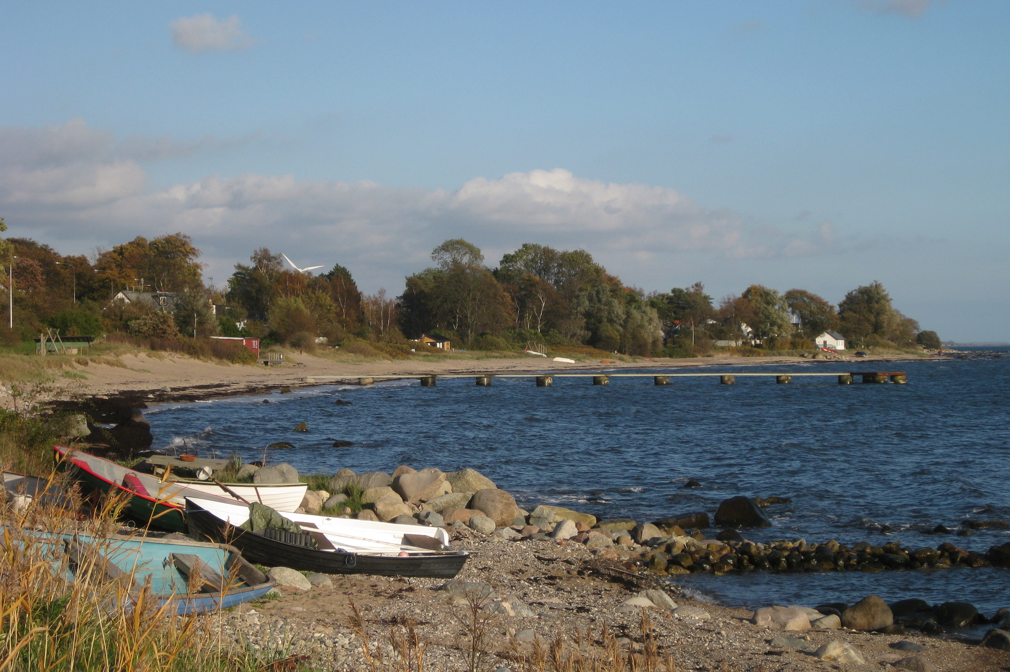 The beach by Svarte, Skåne, Sweden